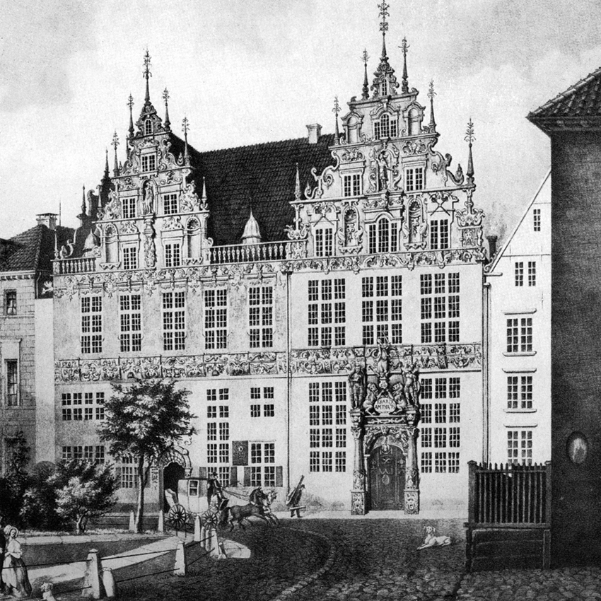 Steel engraving of the Wandschneiderhauses in Bremen, Germany, based on a drawing by Friedrich Wilhelm Kohl from the year 1848.